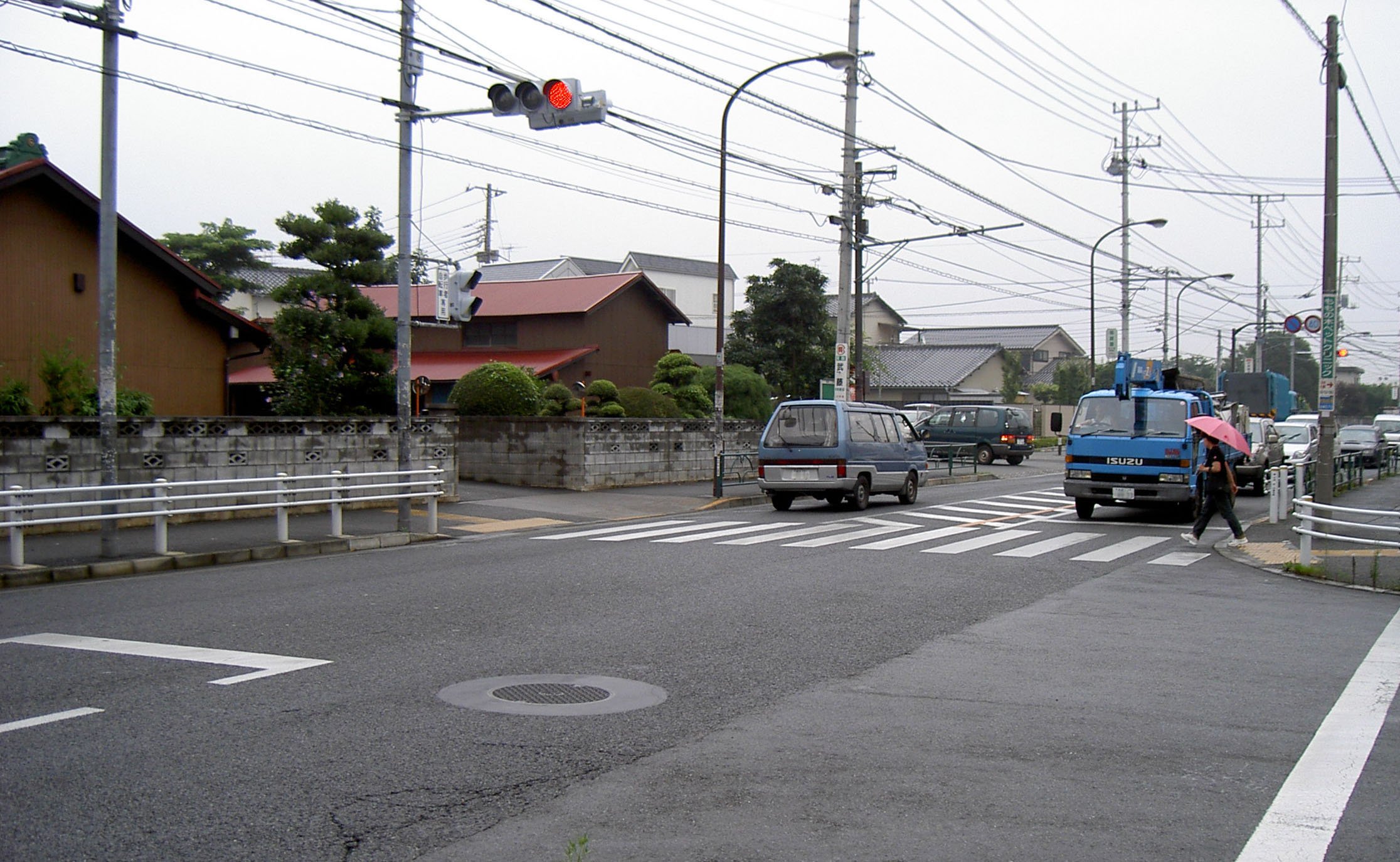 The junction of Tokyo Prefectural Road Route 56 and Route 141 ja: 東京都道56号目黒町町田線（手前、右）と東京都道141号辻原町田線（奥）の合流地点